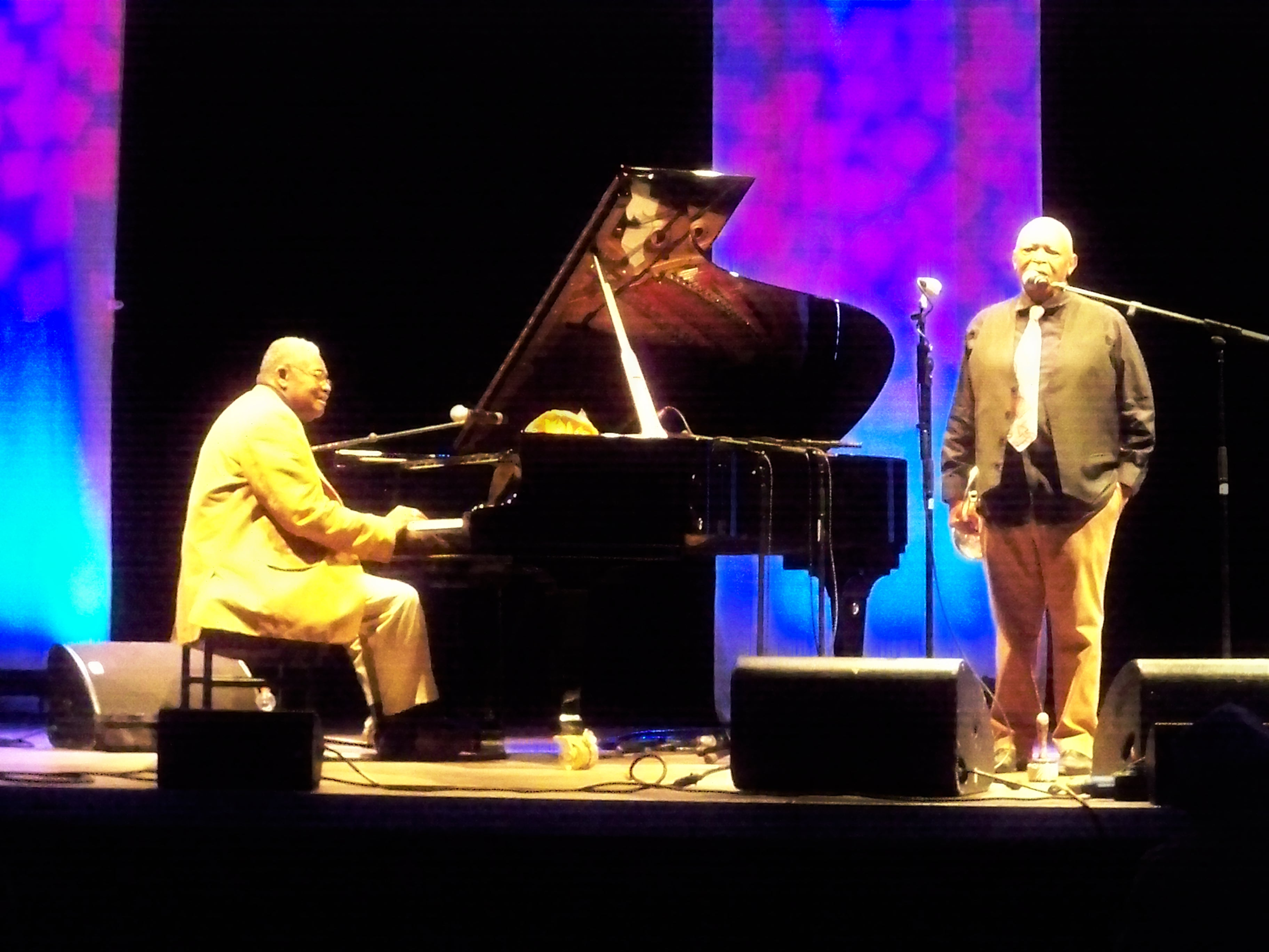 Hugh Masekela (South Africa, right) and Larry Willis (USA) in concert